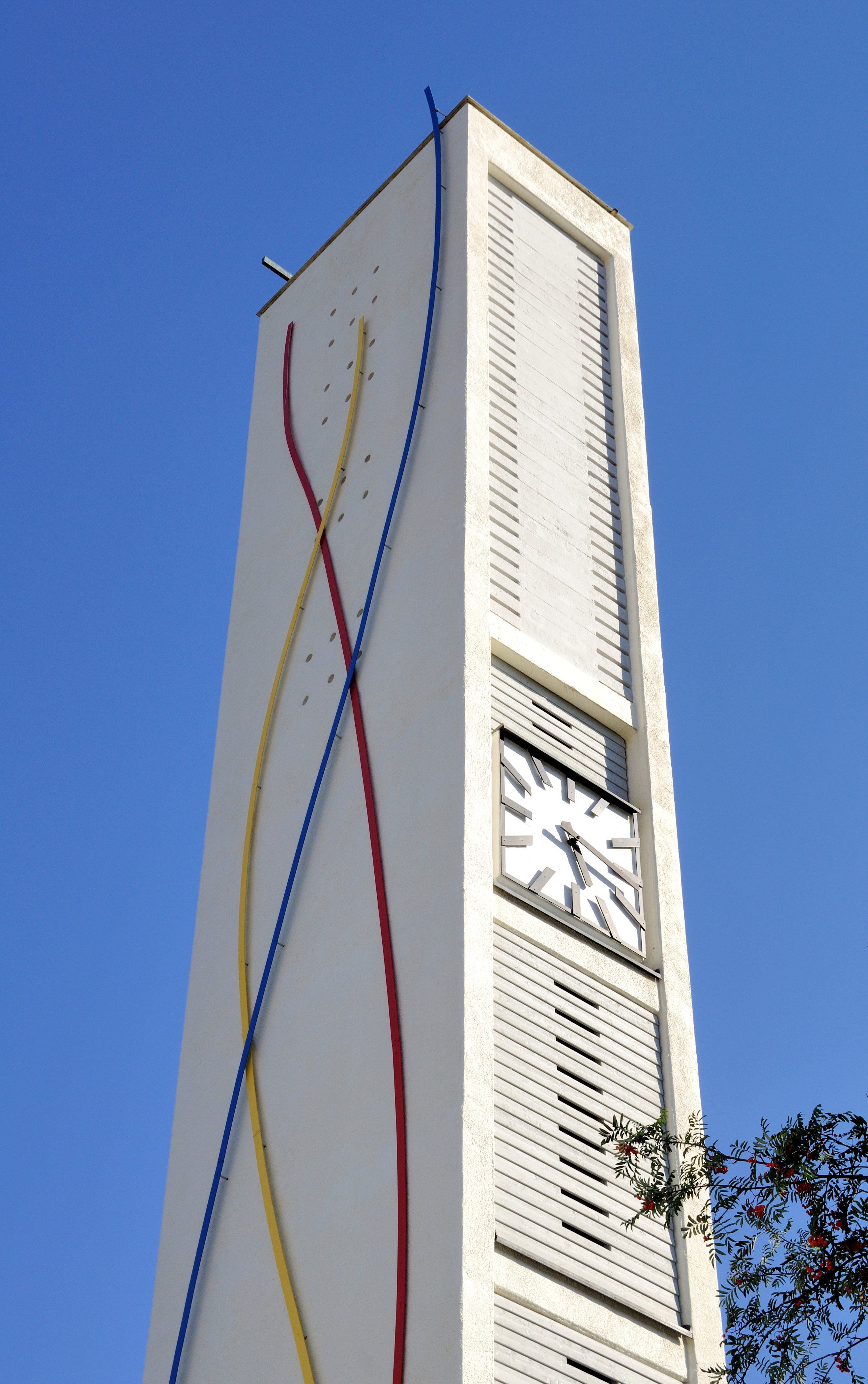 Schopfheim-Fahrnau: Protestant Church